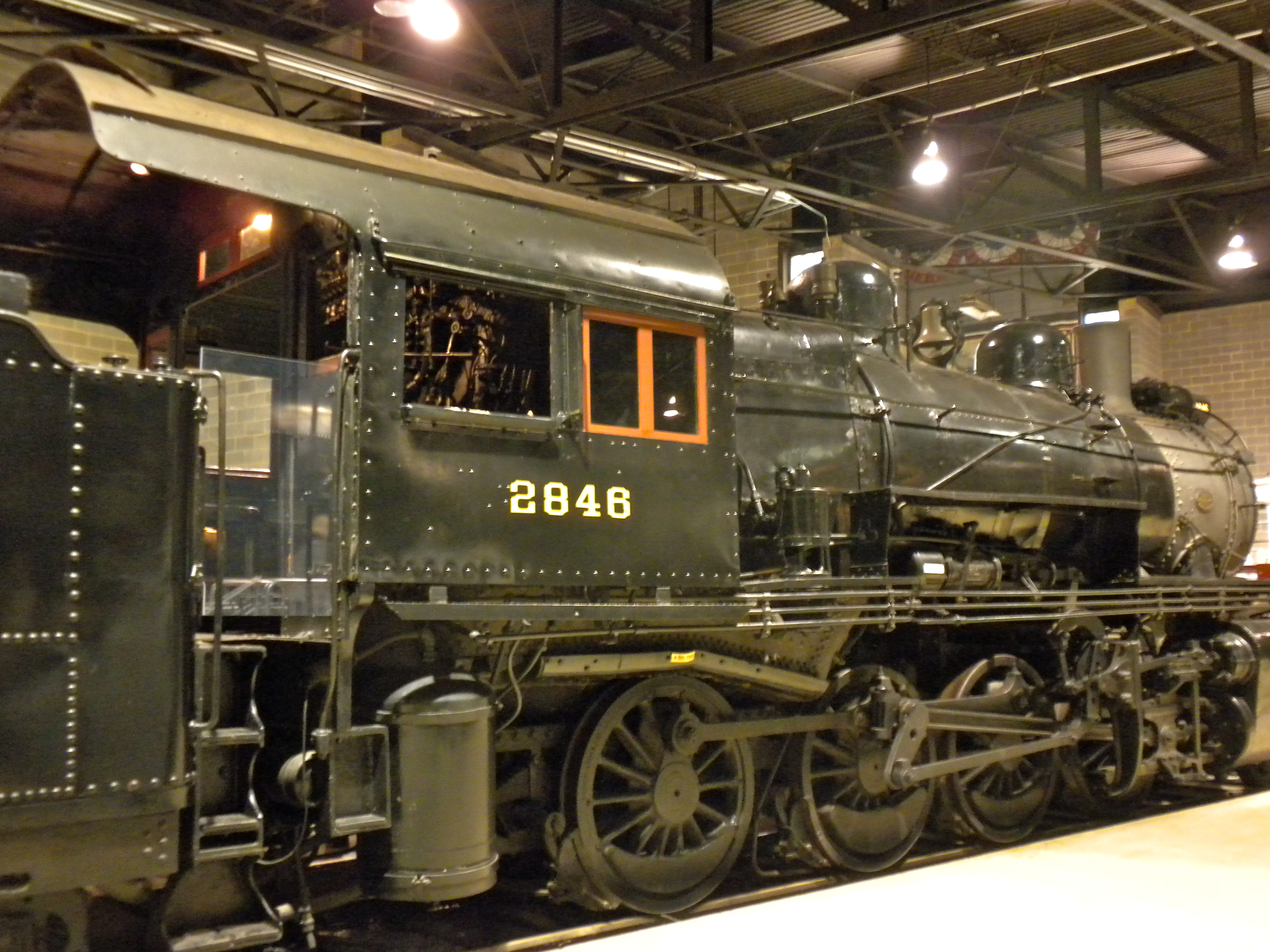 PRR steam locomotive No. 2846. built 1905 by Baldwin 2-8-0. In Railroad Museum of Pennsylvania, east of Strasburg, PA. On NRHP since 1979. PRR class H6sb